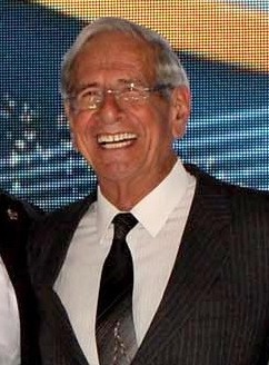 Israel celebrates its 65th Independence Day. Israel Prize ceremony held at the International Convention Centre in Jerusalem. Photo: Israel Prize recipients 2013 with Minister of Education, MK Shai Piron (center) alongside Actor Chaim Topol (to his right). First on the right, close to the camera: Eliyahu Hacohen, Prof. Nathan Nelson, Professor Gideon Dagan and Professor Adam Mazur. First on the left, close to the camera: Professor Joseph Kaplan, Professor Nola Chilton, Professor Yoram Bilu, wife of the late Ron Nachman, Dorit and Professor Hanna Turniansky.